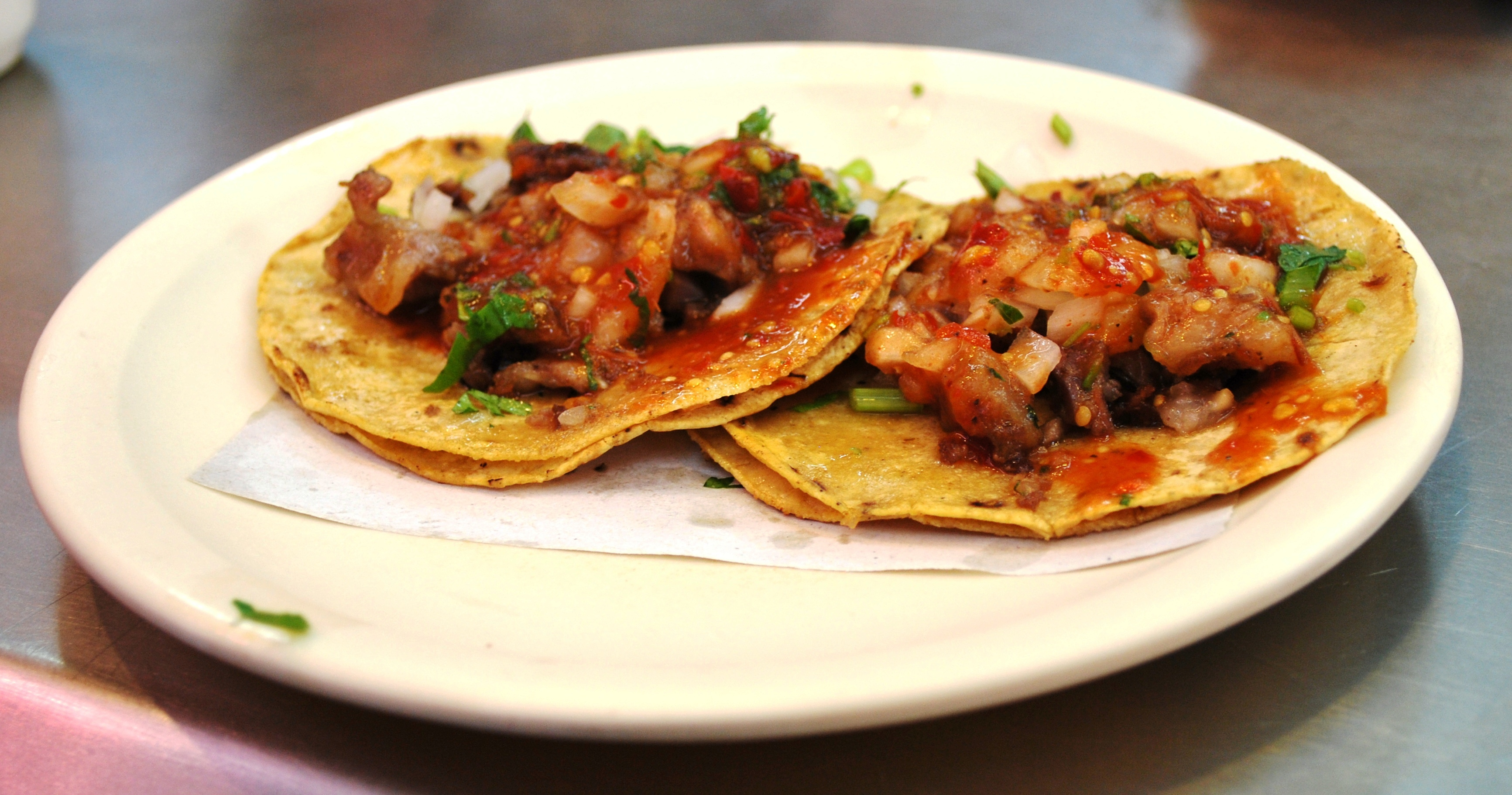 Tacos de suadero (a cut of beef) at a stand in the Tacubaya neighborhood of Mexico City